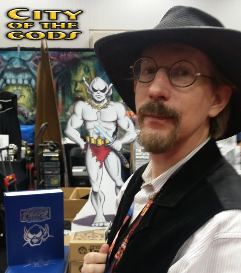 Steve Crompton at the Goodman Games booth at Gencon 2017